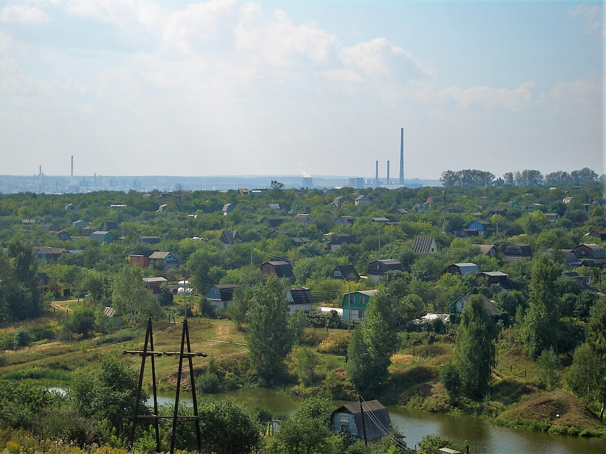 Kstovo's industrial area (Novogorkovskaya TETs etc), seen looking south from a hill near Sosnovskoye garden co-op (SE of the city). (Panorama section: Right, i.e. west)